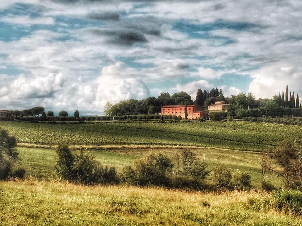 "Poggio delle donne" and Scannagallo battlefield, view from Foiano della chiana to Fattoria Santa Vittoria and Pozzo della Chiana.